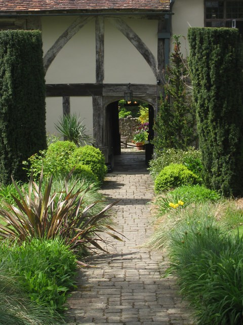 Stoneacre, Otham, Kent. Entrance path and cross passage entrances. Also see 1281928